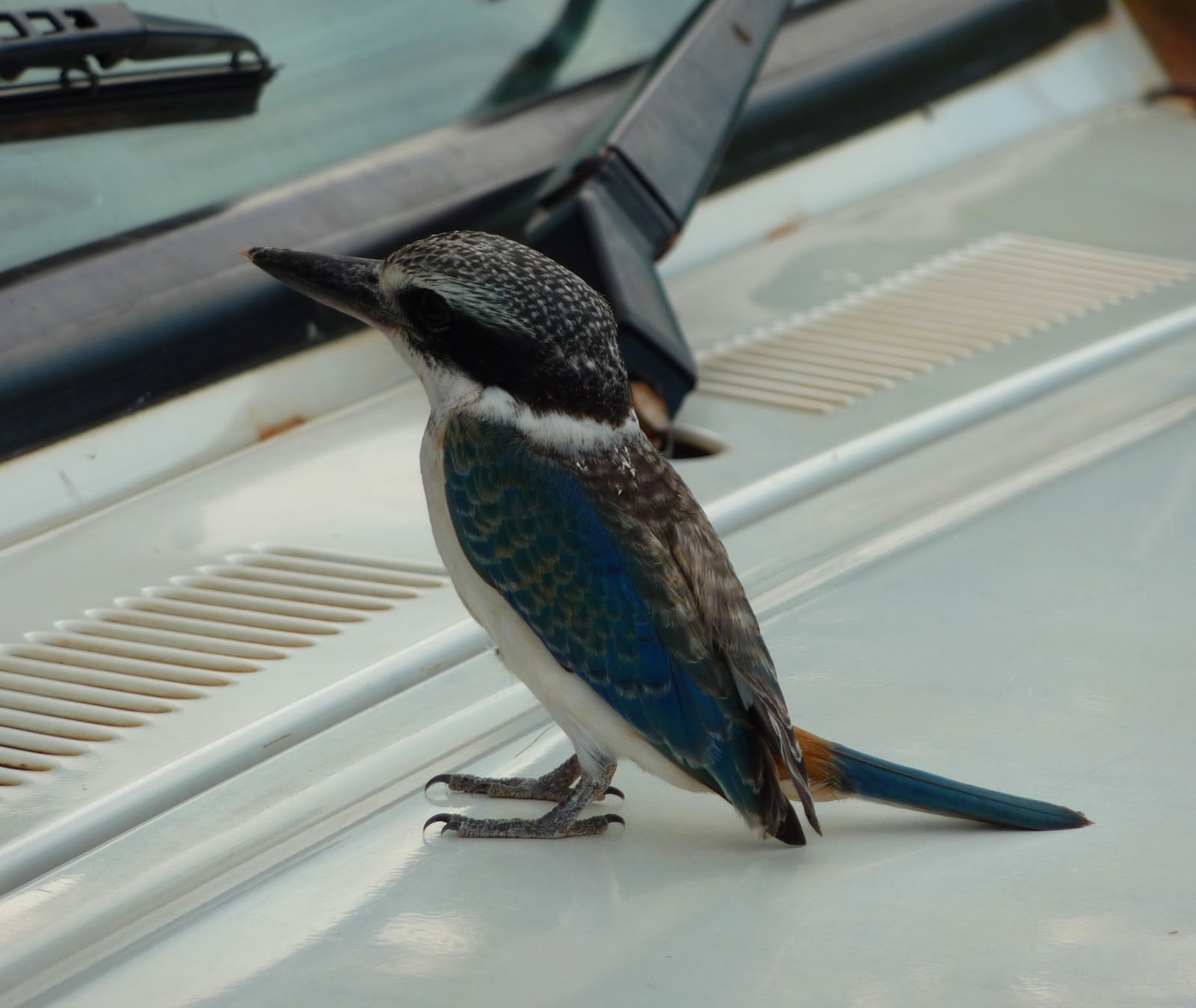 Red-backed Kingfisher (Todiramphus pyrrhopygia), Northern Territory, Australia